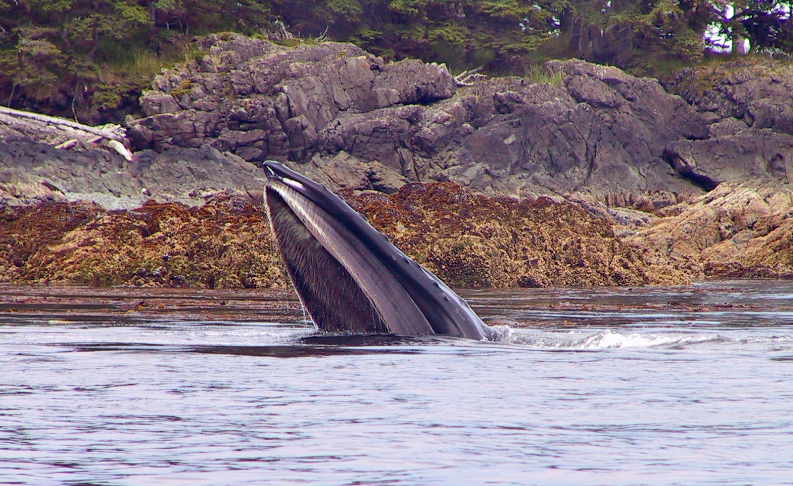 A humpback whale feeding on YOY pollock (very young fishes). 2006. Alaska, Brothers Island, Stephens Passage. Photographer: David Csepp, NOAA/NMFS/AKFSC/ABL[1]